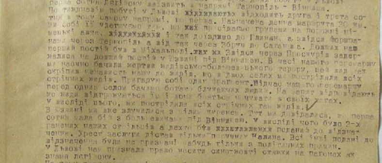 A report by a member of the Nachtigall Battalion about the activities of the unit in July–August 1941, that is, the extermination of Jews in the Vinnytsia Oblast, Ukraine. The text of the report in Ukrainian reads as follows: "Перша сотня Легіону заїздить у напрямі Тарнопіль- Вінниця. По тиждневім побуті у Львові відходить друга і третя в тому самому напрямі, що перша. Призначена денна маршрута 30 км. Ми собі її улегшуємо тим, що посідаємо групами на порожні німецькі авта і там доїздимо до Глинак, а звідси форшпанами через Тернопіль, а від так через Збруч до Саганів с.Довшах наш перший постій був у Міхальполі. Звідси через Проскурів задержалися на довший постій в Юзвіні під Вінницею. В часі нашого пермаршу ми наочно бачили жертви жидівсько-большовицького терору, цей вид теж скріпив ненависть нашу до жидів, що в двох селах ми постріляли всіх стрічних жидів. Пригадую собі один фрагмент. Під час нашого пермаршу перед одним селом бачили багато блукаючих людей. На запит відповідають що жиди відгрожуються їм і вони бояться ночувать у своїх хатах. У висліді цього, ми постріляли всіх стрічних там жидів. В Юзвіні ми вже злучилися з цілим куренем. Тут ми довідалися, що перша сотня мала бій з більшовиками під Вінницею. У висліді чого було 3-х ранених наших стрільців а дехто був поданий до відзначення. Хрест заслуги дістав тільки поручик Калина. Всі інші подані до відзначення були не признані мабудь тільки з політичних причин. У Львові нам признали право носити синьо-жовті стяжки на погонах як знамя легіону."